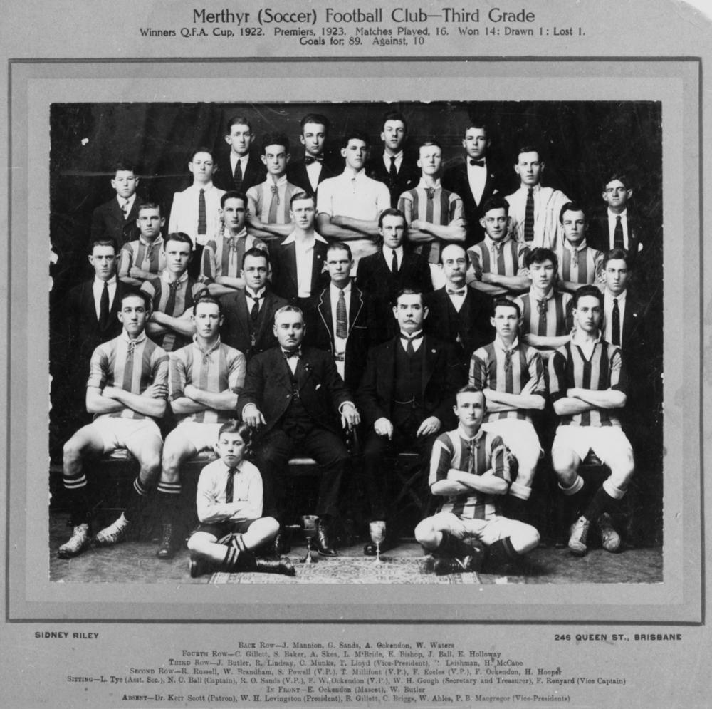 Merthyr (Soccer) Football Club - Third Grade, Winners Q. F. A. Cup, 1922 and Premiers, 1923. Played 16 matches, won 14, drew 1, lost 1. Goals for - 89, against - 10. Back row - J. Mannion, G. Sands. A. Ockendon, W. Waters. Fourth row - C. Gillet, S. Baker, A. Skes, L. McBride, E. Bishop, J. Ball, E. Holloway. Third row - J. Butler, R. Lindsay, C. Munks, T. Lloyd (Vice-president), ? Leishman, H. McCabe. Second row - R. Russell, W. Brandham, S. Powell (Vice-president), T. Millifont (Vice-president), F. Eccles (Vice-president), F. Ockendon, H. Hooper. Sitting - L. Tye (Assistant Secretary), N. C. Ball (Captain), R. O. Sands (Vice-president), F. W. Ockendon (Vice-president), W. H. Gough (Secretary and Treasurer), F. Renyard (Vice-captain). In front - E. Ockendon (Mascot), W. Butler. Absent - Dr Kerr Scott (Patron), W. H. Levington (President), R. Gillett, C. Briggs, W. Ahles, P. B. Macgregor (Vice-president). (Description supplied with photograph.).